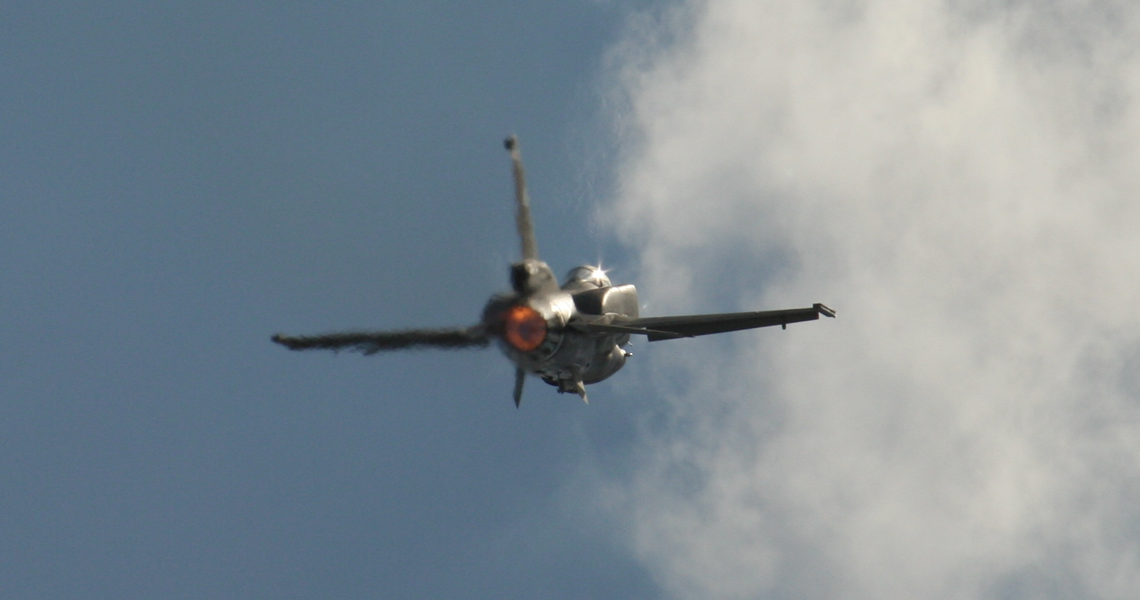 HAF F-16 Demo Team in Full Afterburner